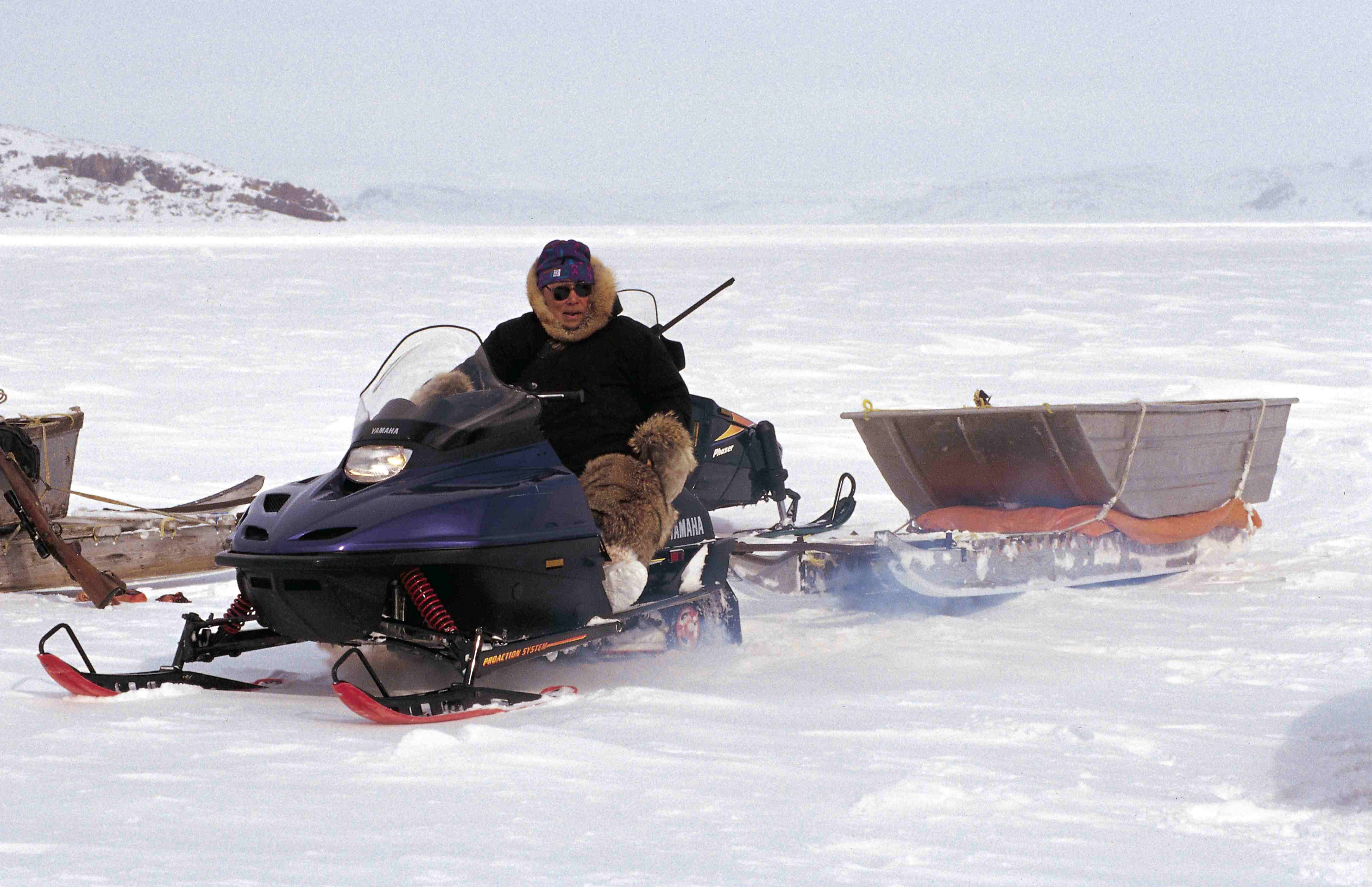 Seal hunter at the floe edge near Cape Dorset (Nunavut Territory, Canada)